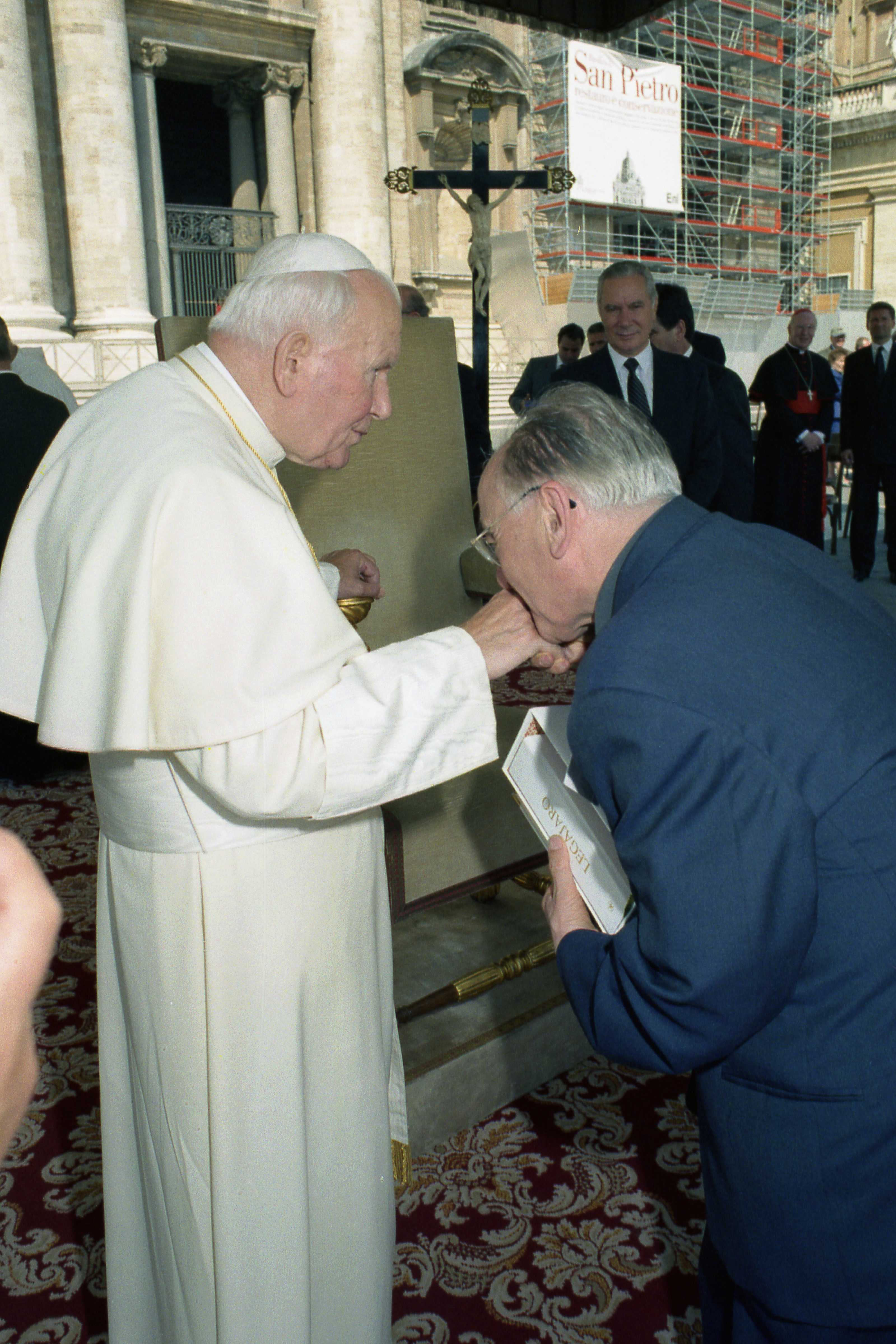 Pope John Paul II takes over the Esperanto Missal and Lectionary from IKUE.